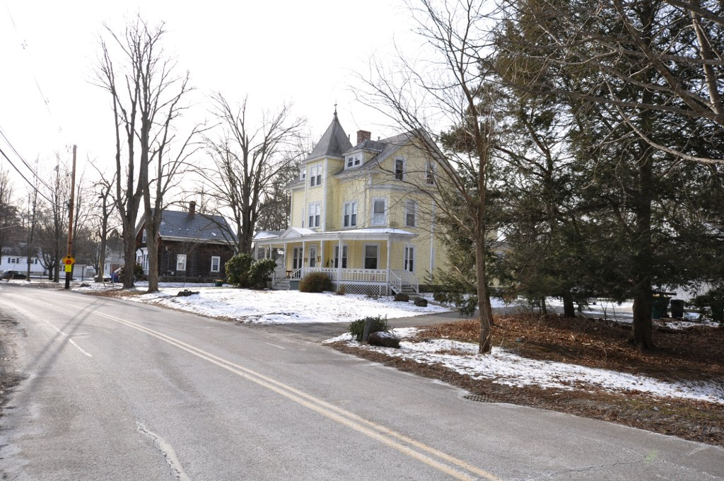 224 Towne Street in North Attleborough, Massachusetts, part of the Towne Street Historic District.